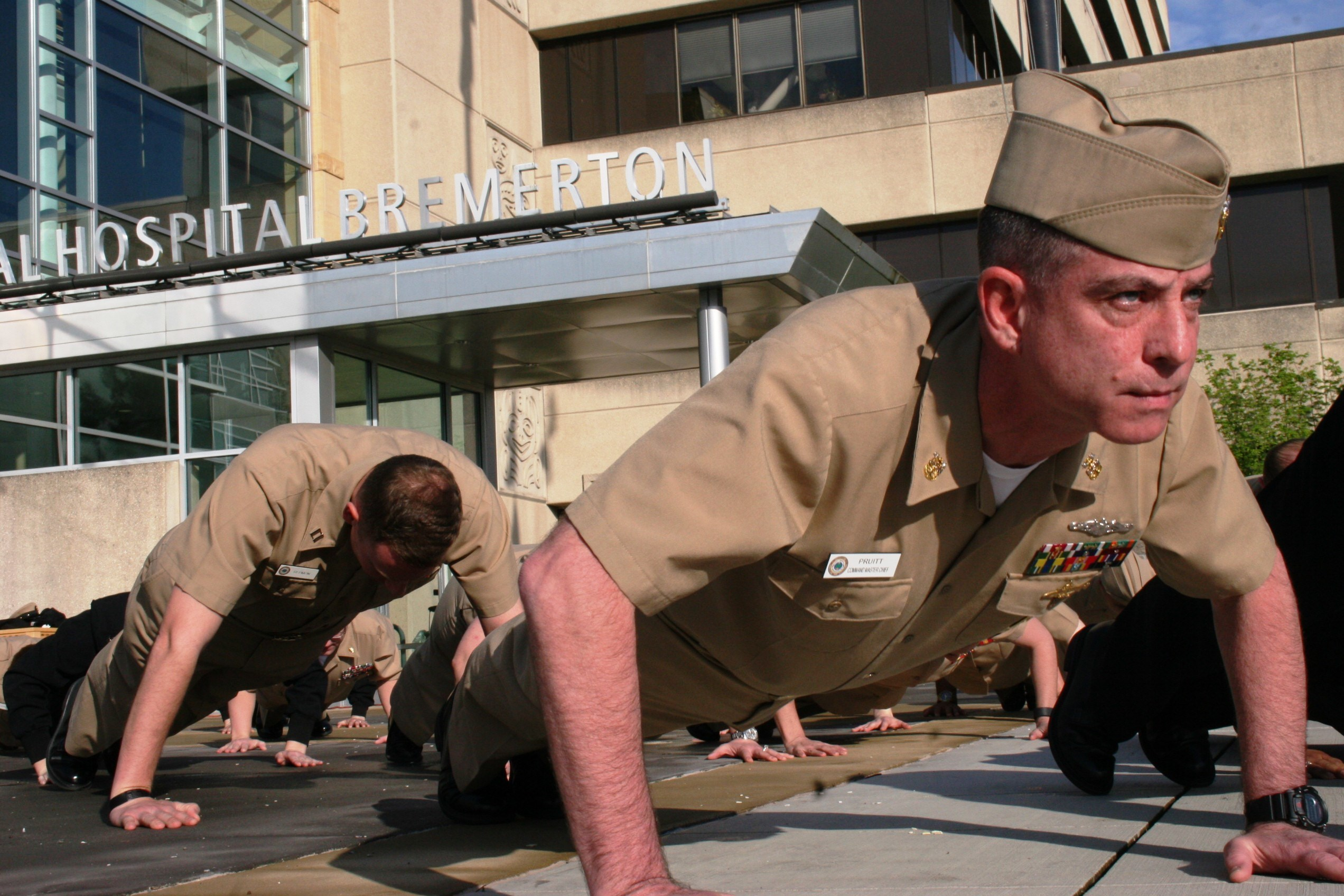 Giving 22 for 22 on 22...Naval Hospital Bremerton Command Master Chief Randy Pruitt drops for 22 pushups for 22 veterans on April 22, 2016 to support the command's ‘22 Pushup Challenge for Veteran’s Suicide Awareness.' Statistical evidence shows that 22 veterans a day commit suicide and as of April 2016, there have been nine active duty and three Navy Reserve Sailors who have taken their life. The event was organized by Hospital Corpsman 3rd Class Elaina McMillian to help raise continual awareness, one pushup at a time, amongst staff members on the struggle that many veterans deal with (Official Navy photo by Douglas H Stutz, NHB Public Affairs).